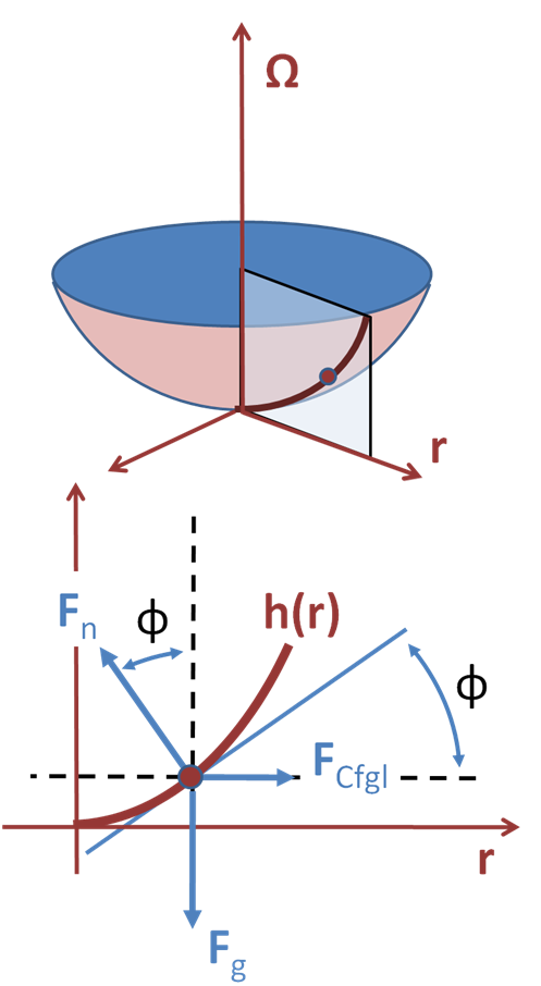 Force diagram in co-rotating frame for water surface in rotating bucket